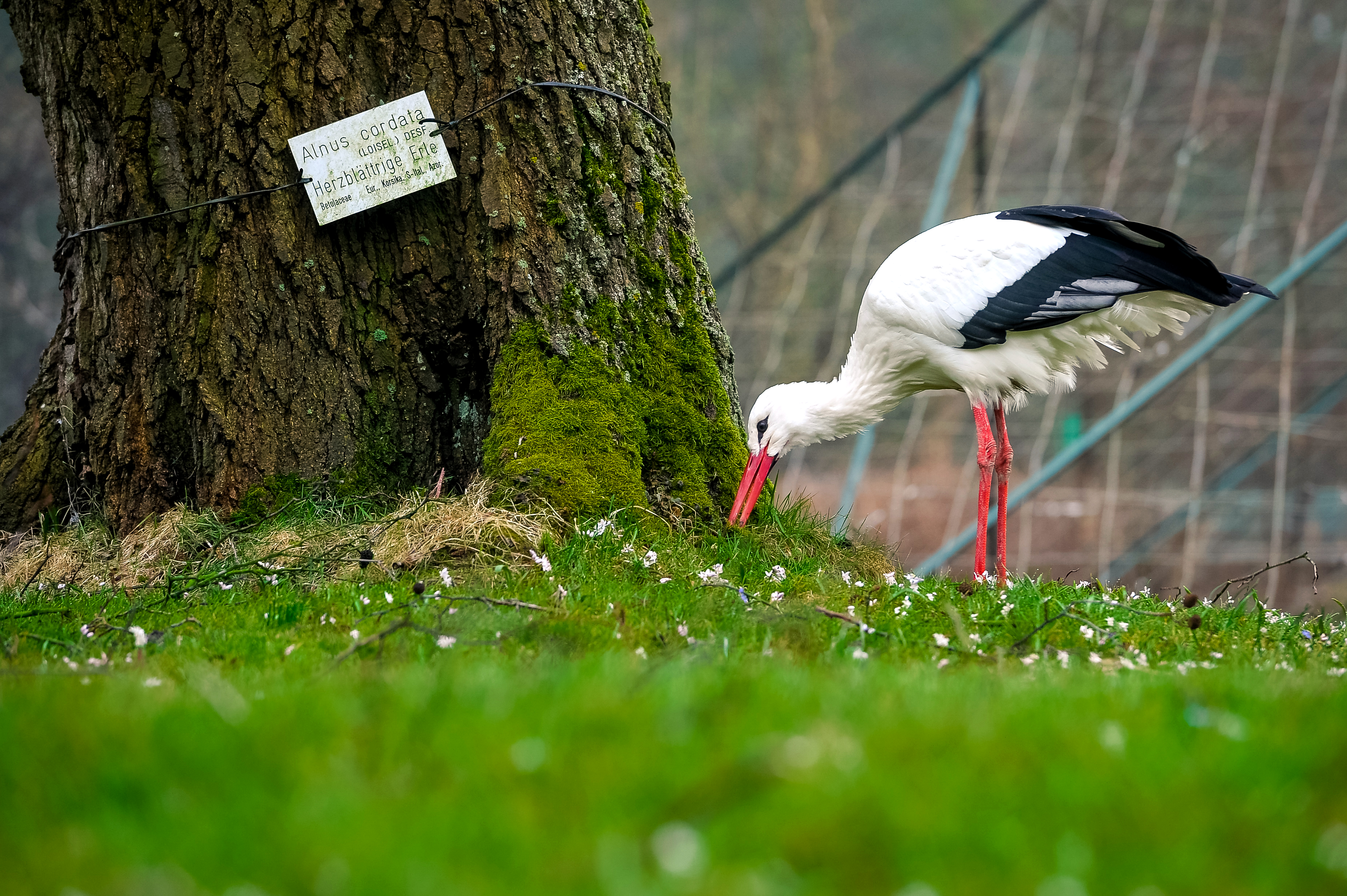 Pflegestoerche im Botanischen Garten Oldenburg